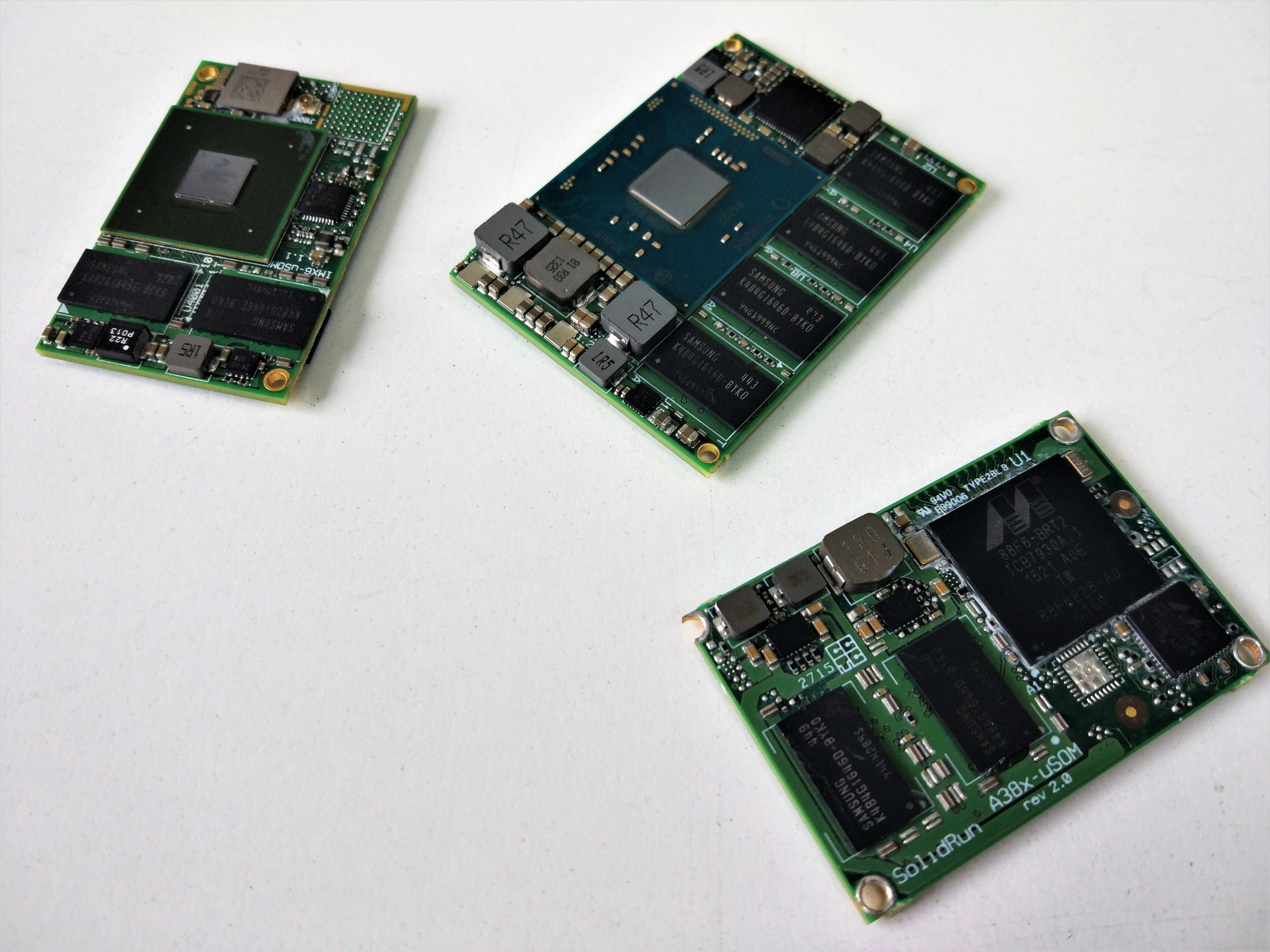 Selection of SolidRun SOMs (System on Module) - Freescale i.MX6, Marvell Armada & Intel Braswell.